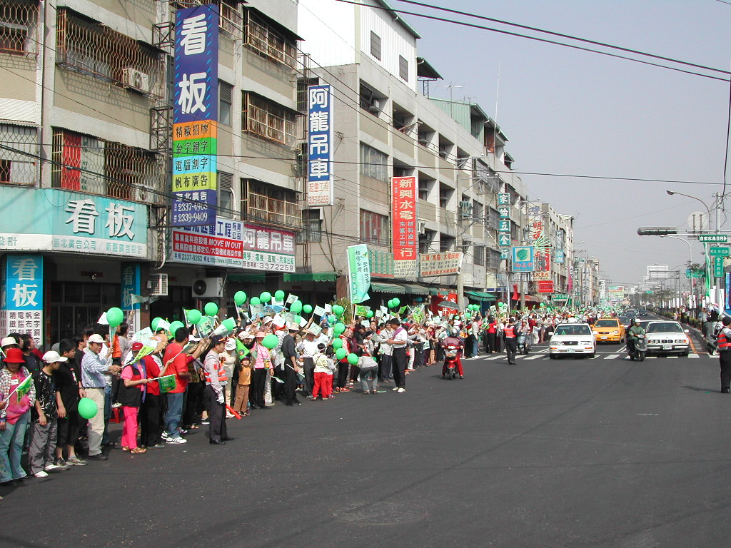 An example of a human chain as a display of political solidarity: the 228 Hand-in-Hand Rally in Taiwan, 2004. This segment was in Taichung County.